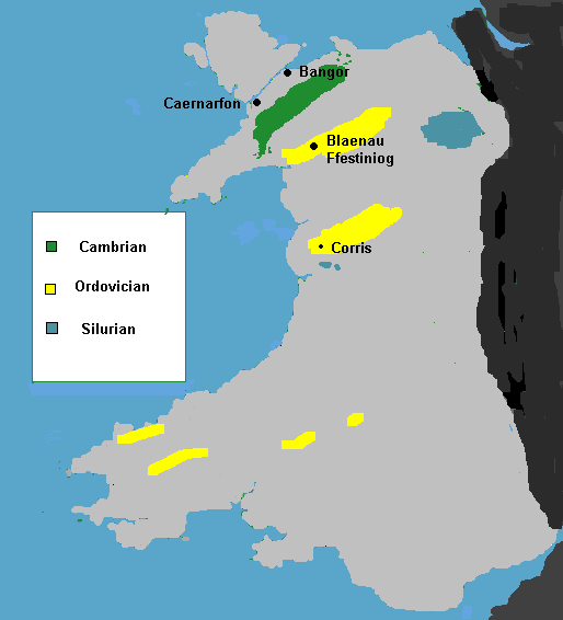 Slate deposits in Wales Created by Rhion Pritchard 31/08/2006 using MS Paint